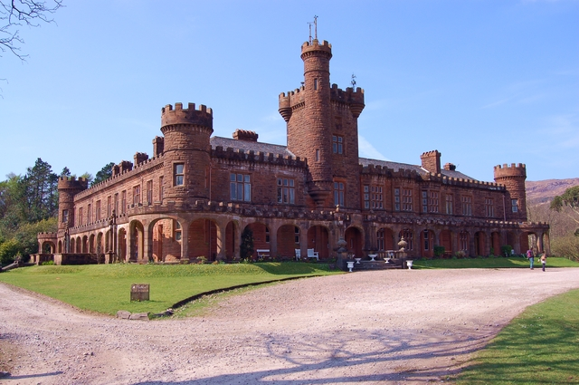 Kinloch Castle Kinloch Castle was built for George Bullough around 1900. It is constructed from red sandstone from Corsehill Quarry NY2070, near Annan. From the beginning, the house has been lit by electricity from its own hydro-electric scheme, which is still in use today. Much of the castle reflects the eccentricity of its owner. Barking, in my opinion. But it’s a wonderful building.